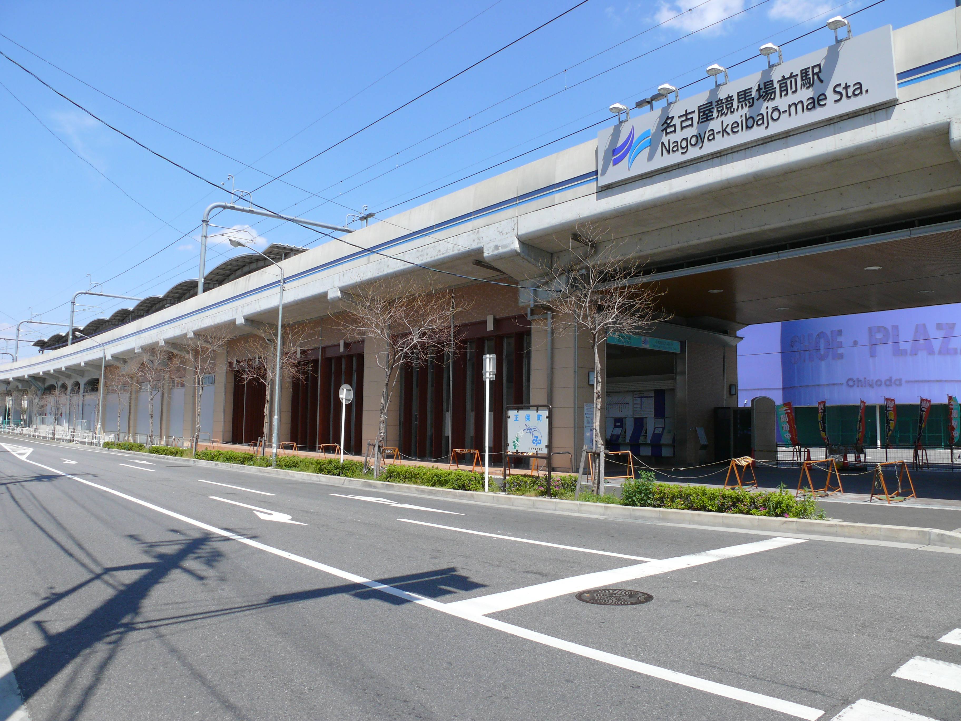 AONAMI Line Nagoya Keibajo-mae Station.